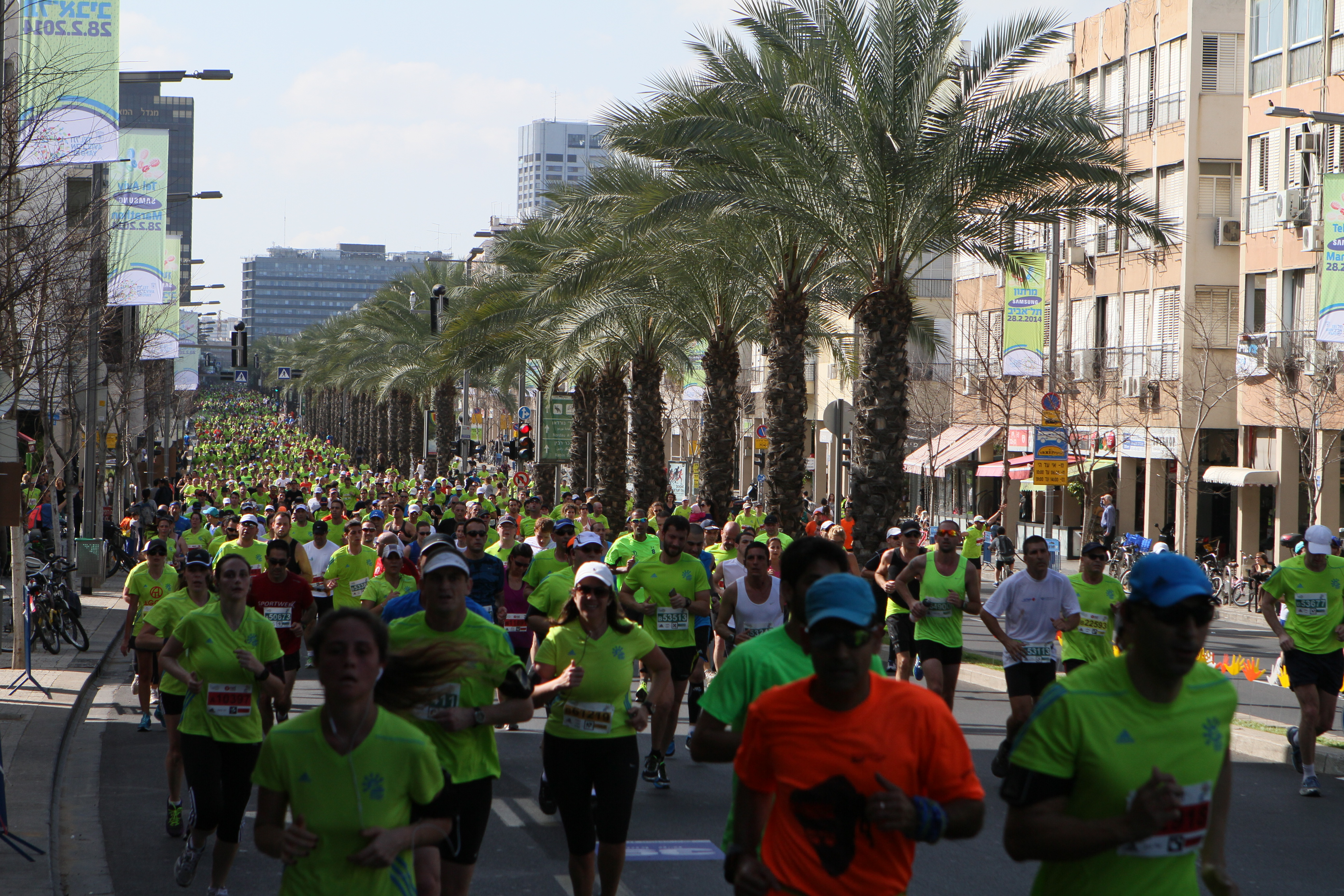 Maraton Tel Aviv